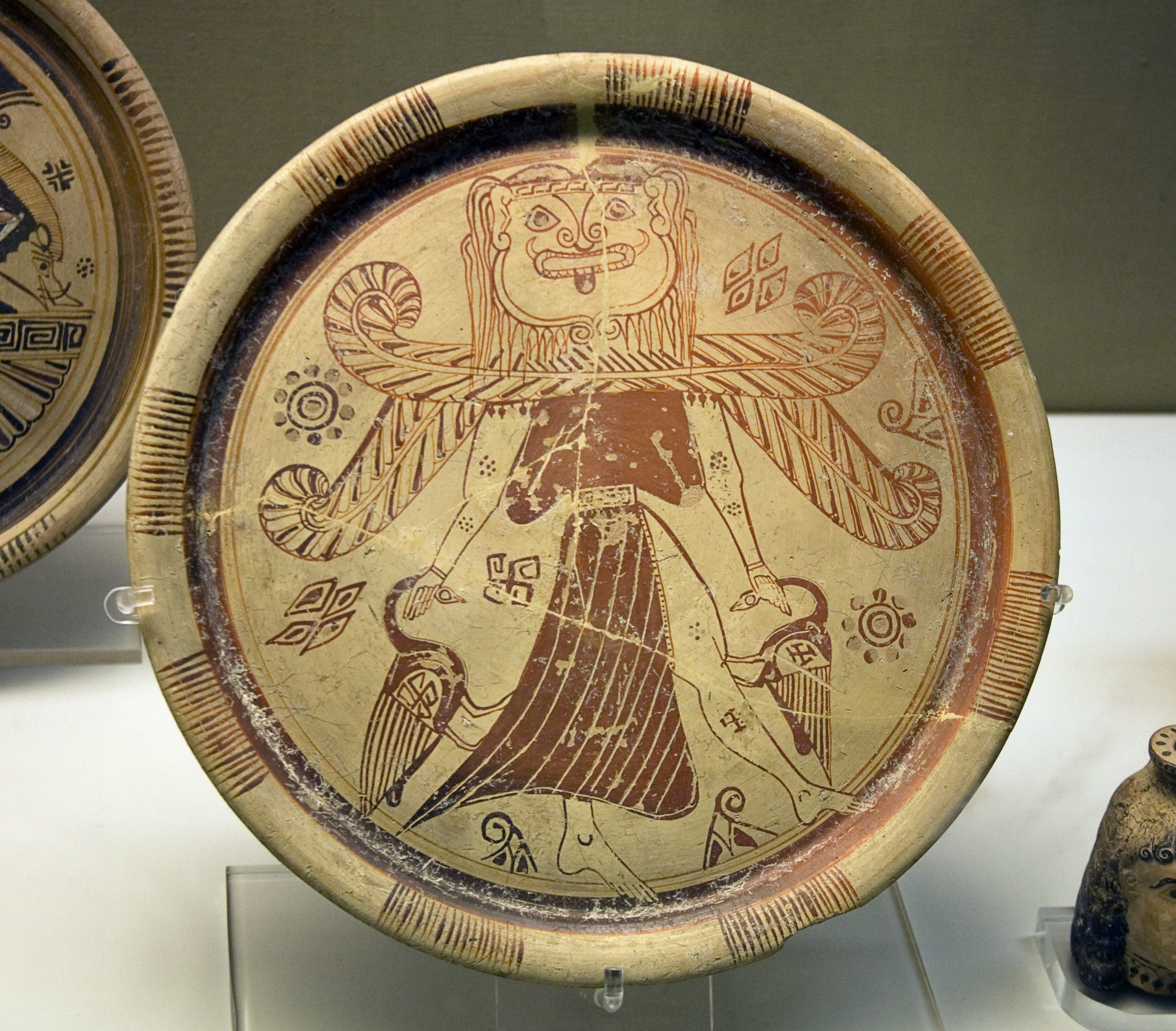 Winged goddess with a Gorgon's head wearing a split skirt and holding a bird in each hand, type of the Potnia Theron. Probably made on Rhodes. From Kameiros, Rhodes.